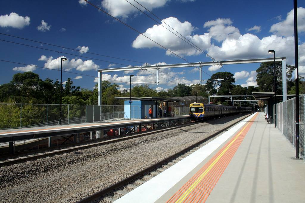 The new Laburnum station. Photograph taken on Monday 29th January 2007, the day of the station's reopening.